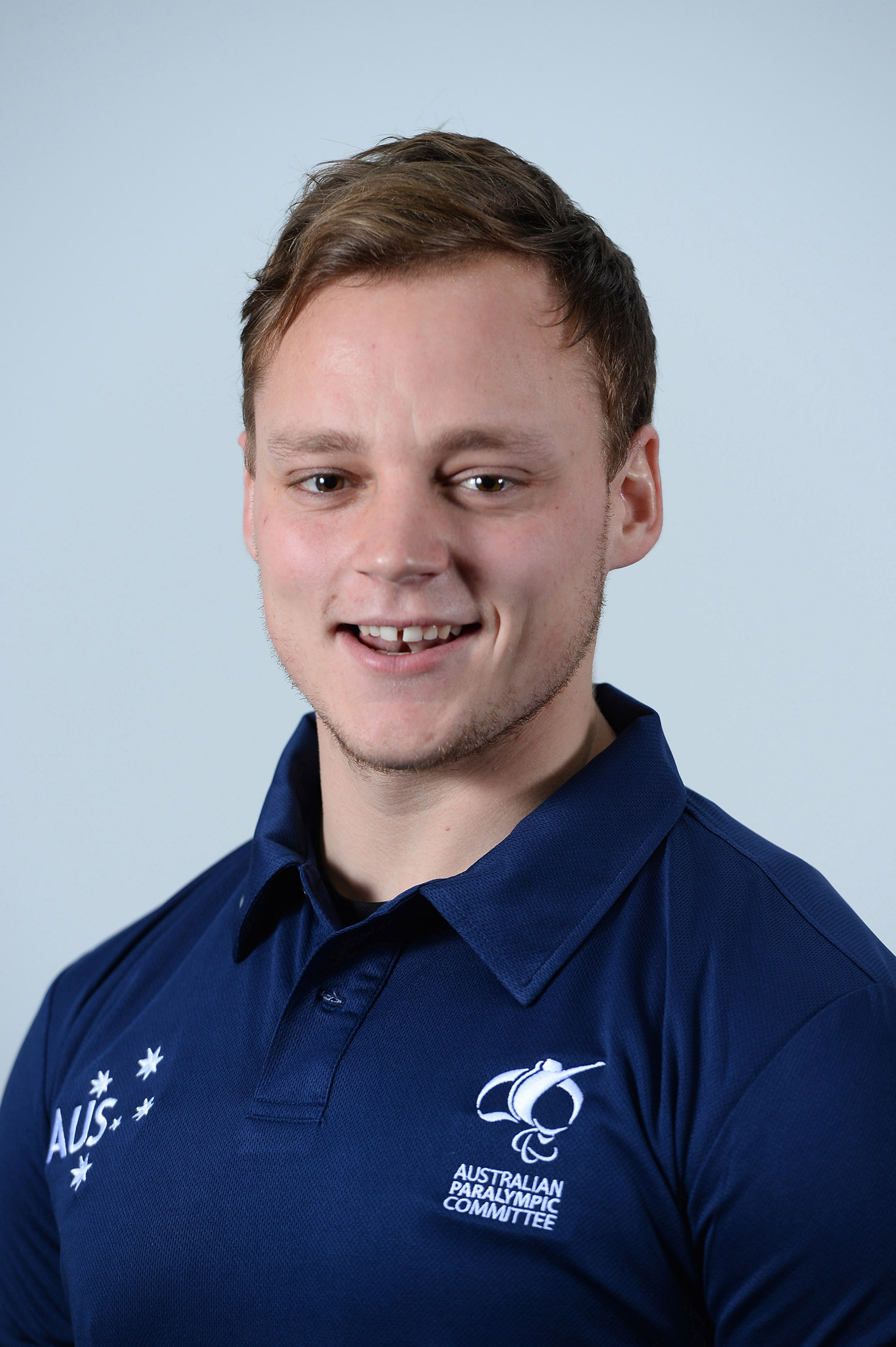 Portrait photograph of Jayden Sawyer taken at team processing session for shadow members of 2016 Australian Paralympic team